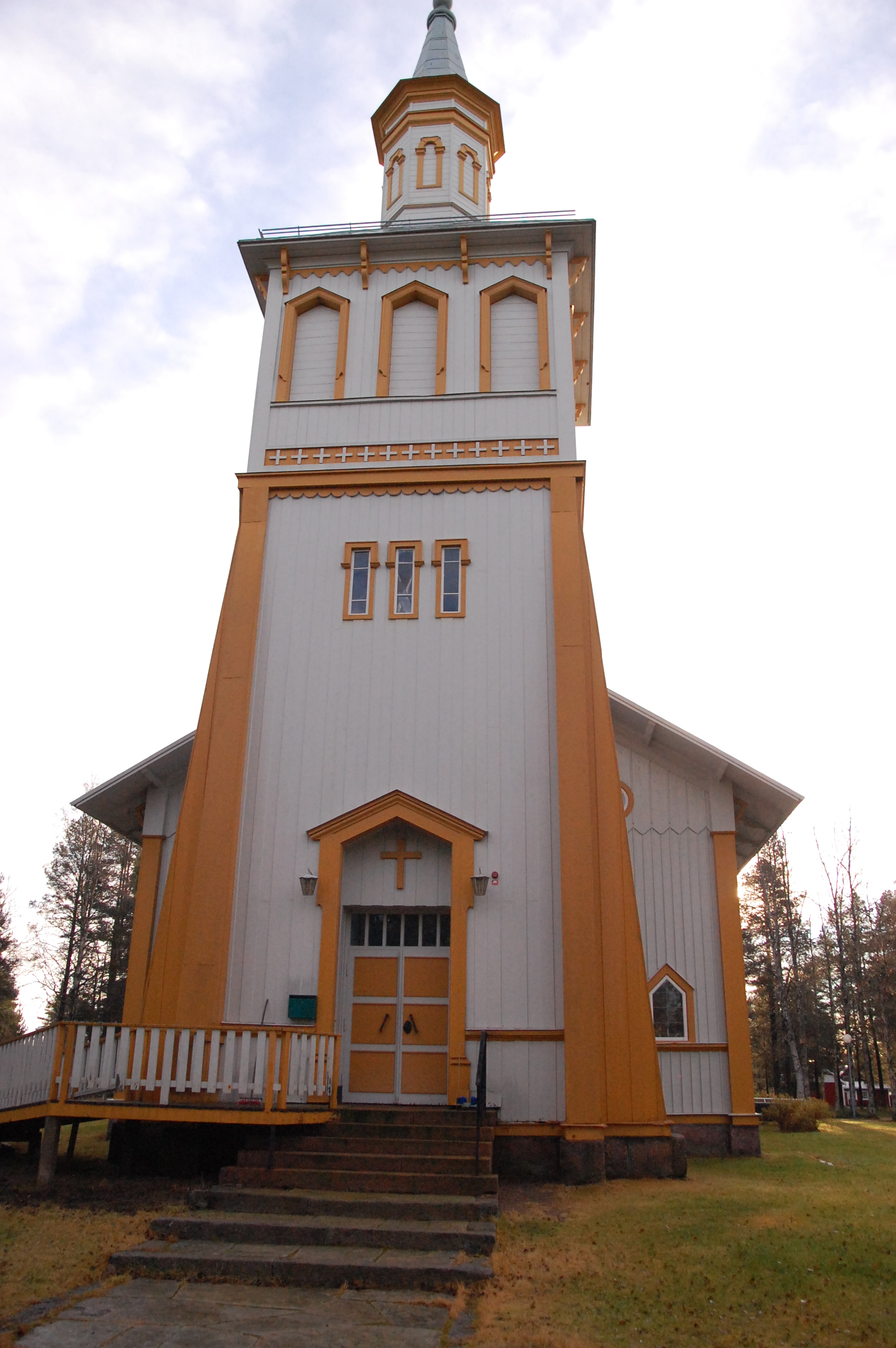 Tärändö church, Pajala, Norrbotten, Sweden